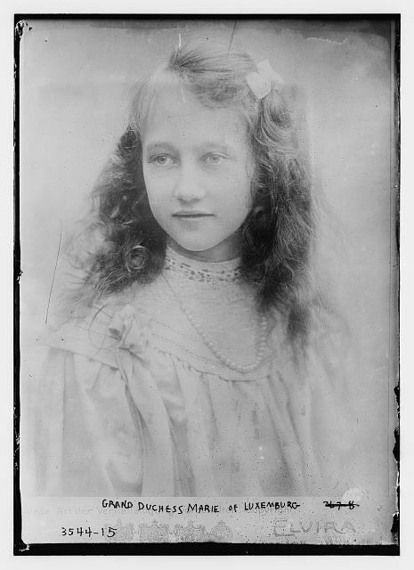 Grand Duchess Marie Adelaide of Luxembourg as a girl.